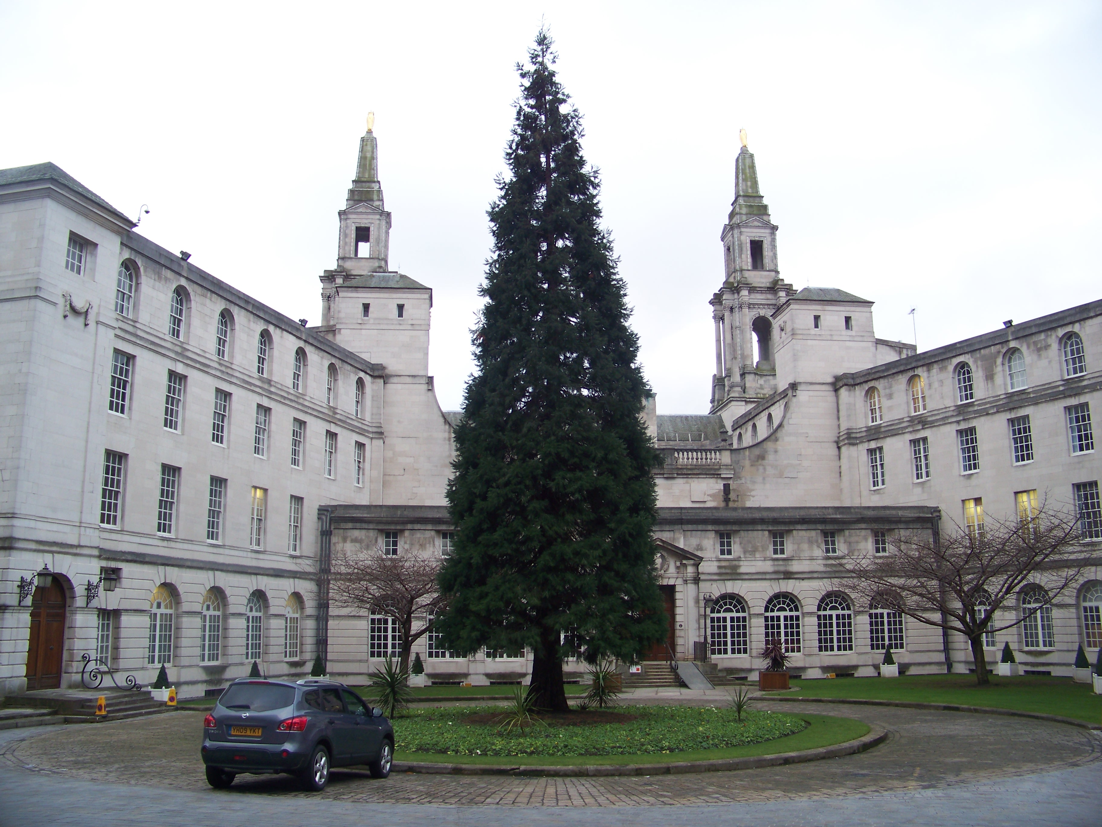 The rear of Leeds Civic Hall. Taken on the afternoon of Saturday the 23rd of January 2010.